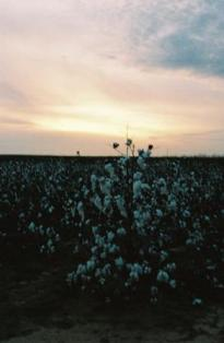 Cotton Field with sunset. Rbsfgrlaty 20:11, 11 April 2007 (UTC)